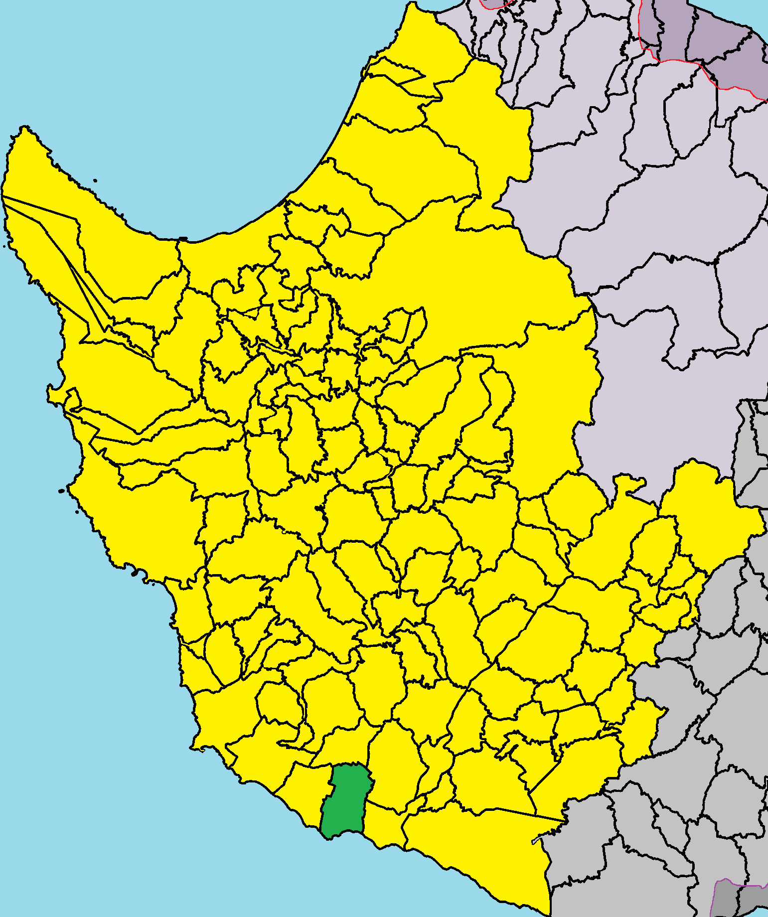 Timi in Paphos District.